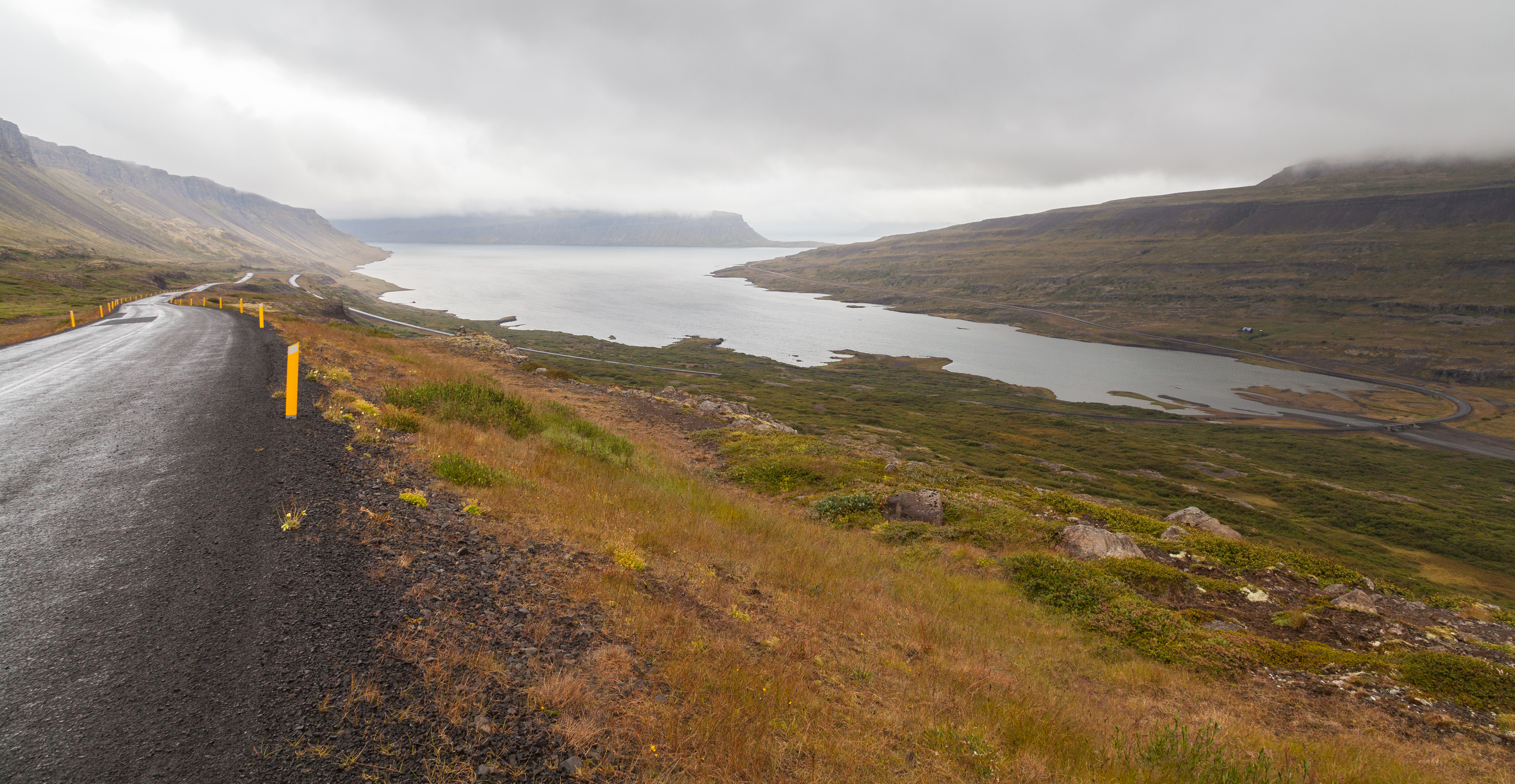 Fjord Vatnsfjörður, Vestfirðir, Iceland